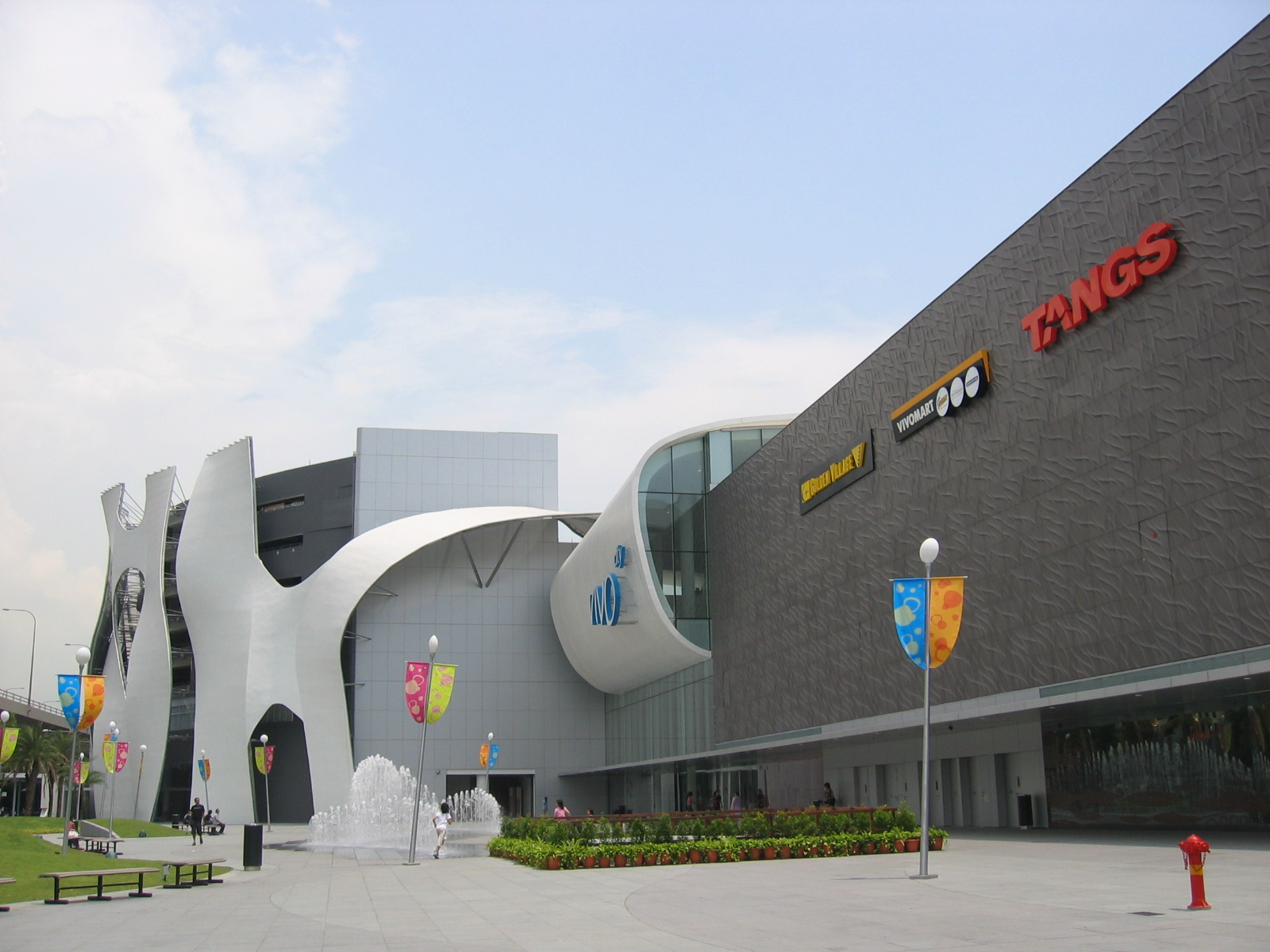 VivoCity.